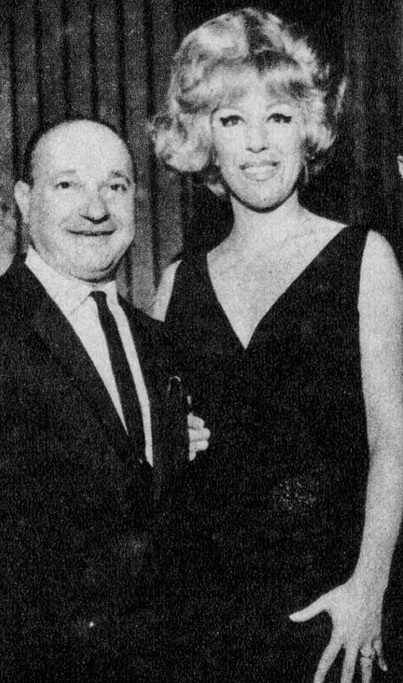 Pepe Marrone junto a su esposa Juanita Maartinez